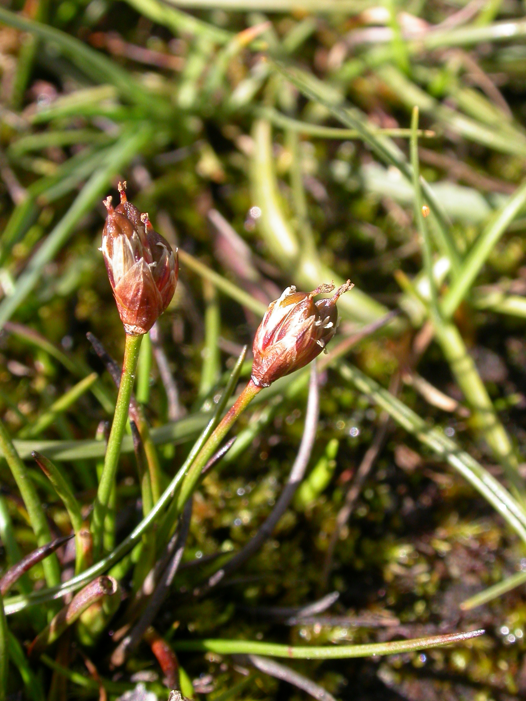 Juncus triglumis Zermatt, Riffelberg (Kanton Wallis, Switzerland), 2500 m Author: Barbara Studer – own photograph Date: 2.08.06